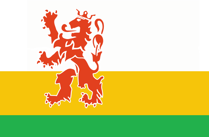 Banner of the Duchy of Limburg in the mid 19th Century